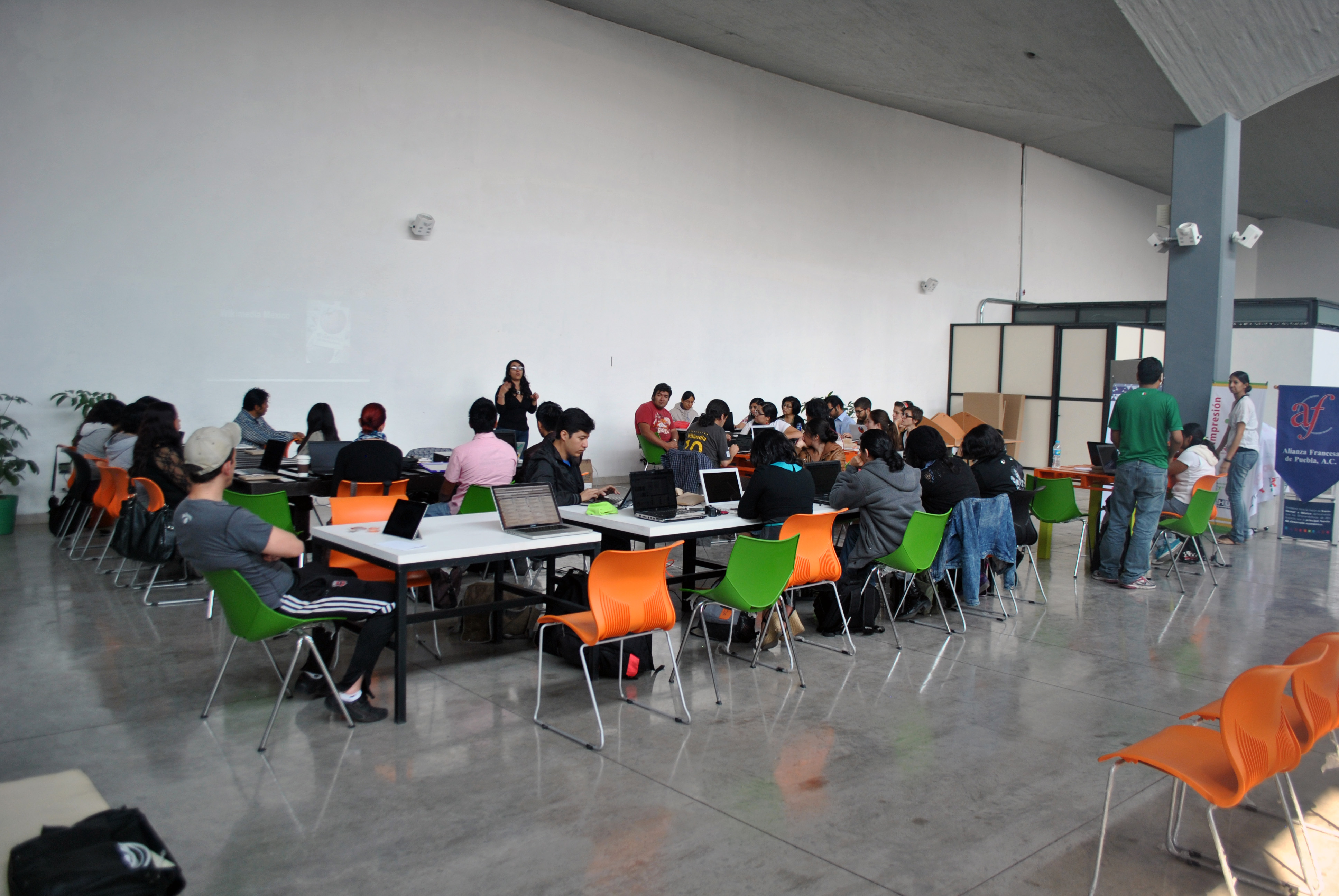 The second edit-a-thon of Puebla took place in the HUB Emprendedor, on May 4, 2013. Organised by Wikimedia Mexico, in collaboration with Astrolabio and HUB Emprendedor. It involved the simultaneous remote collaboration of Wikimedia España and Amical Viquipedia members.